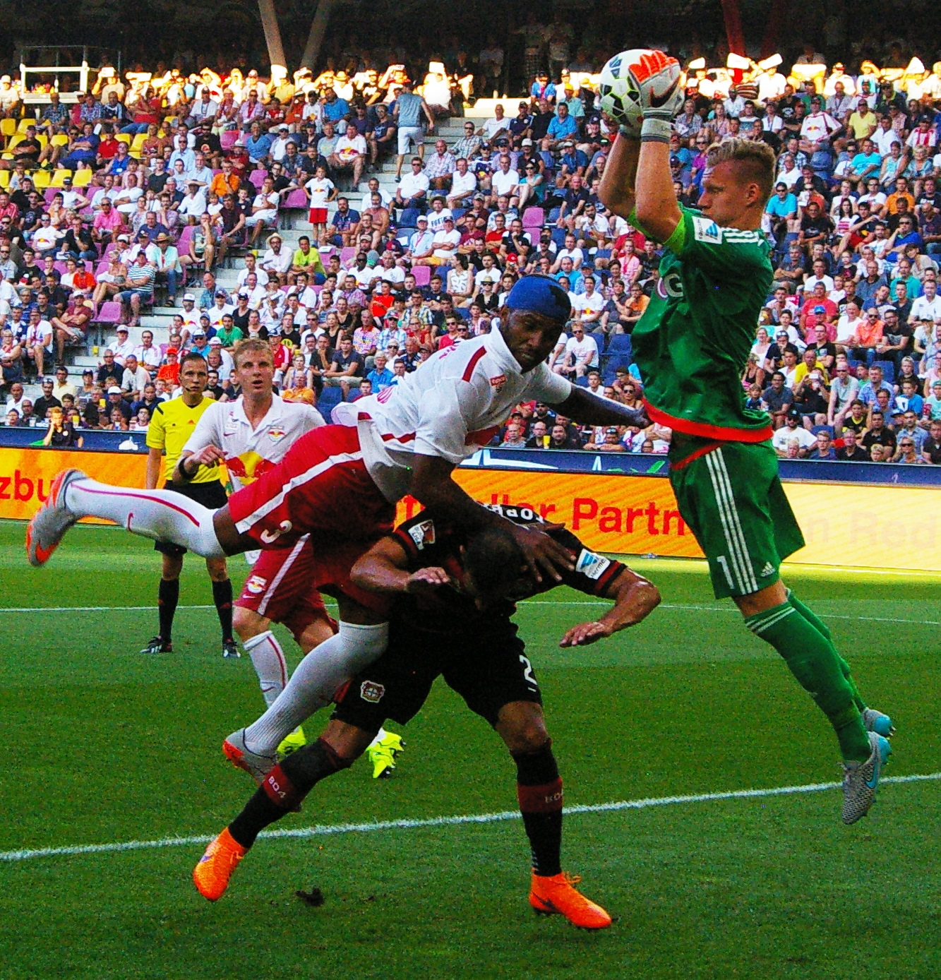 friendly match preseason 2015/16